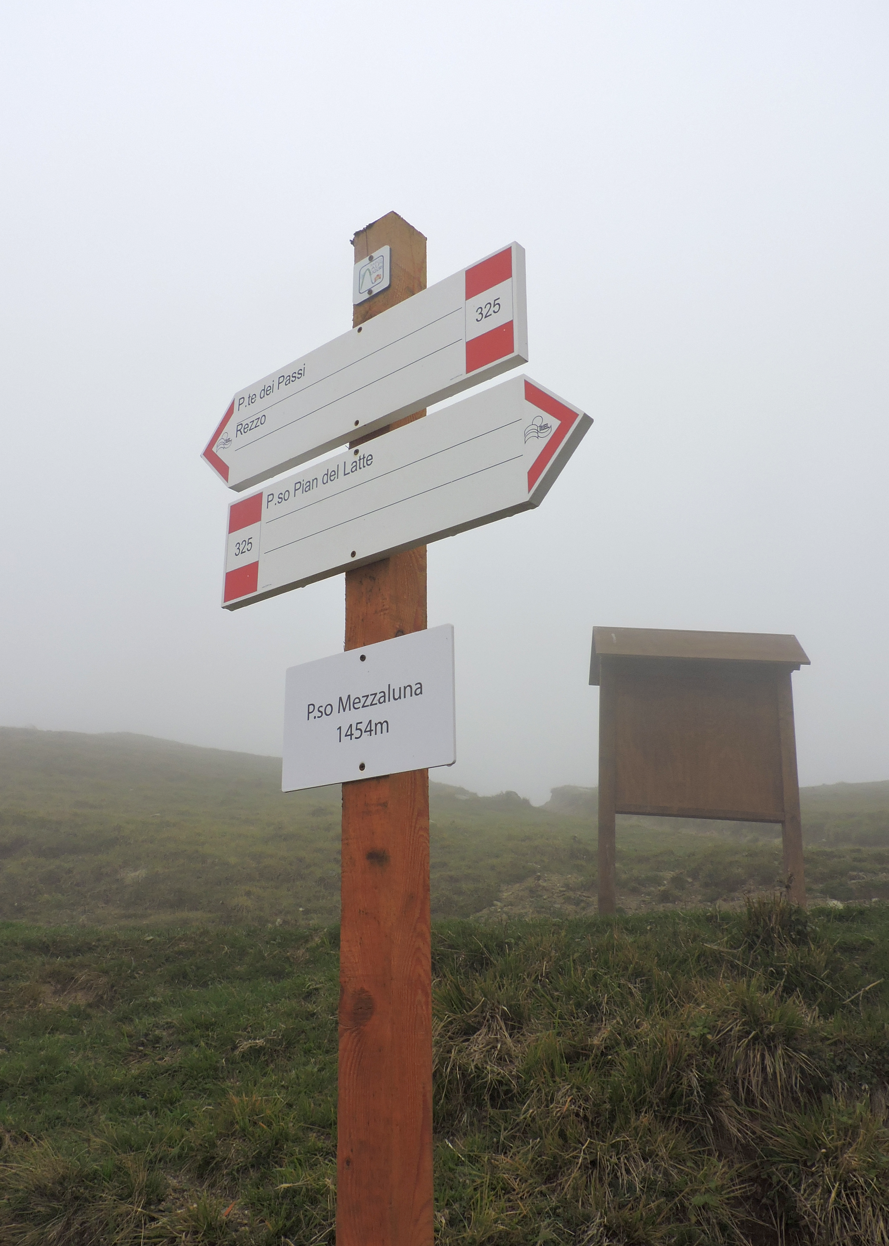 Hiking signs (Passo della Mezzaluna, Ligurian Alps)